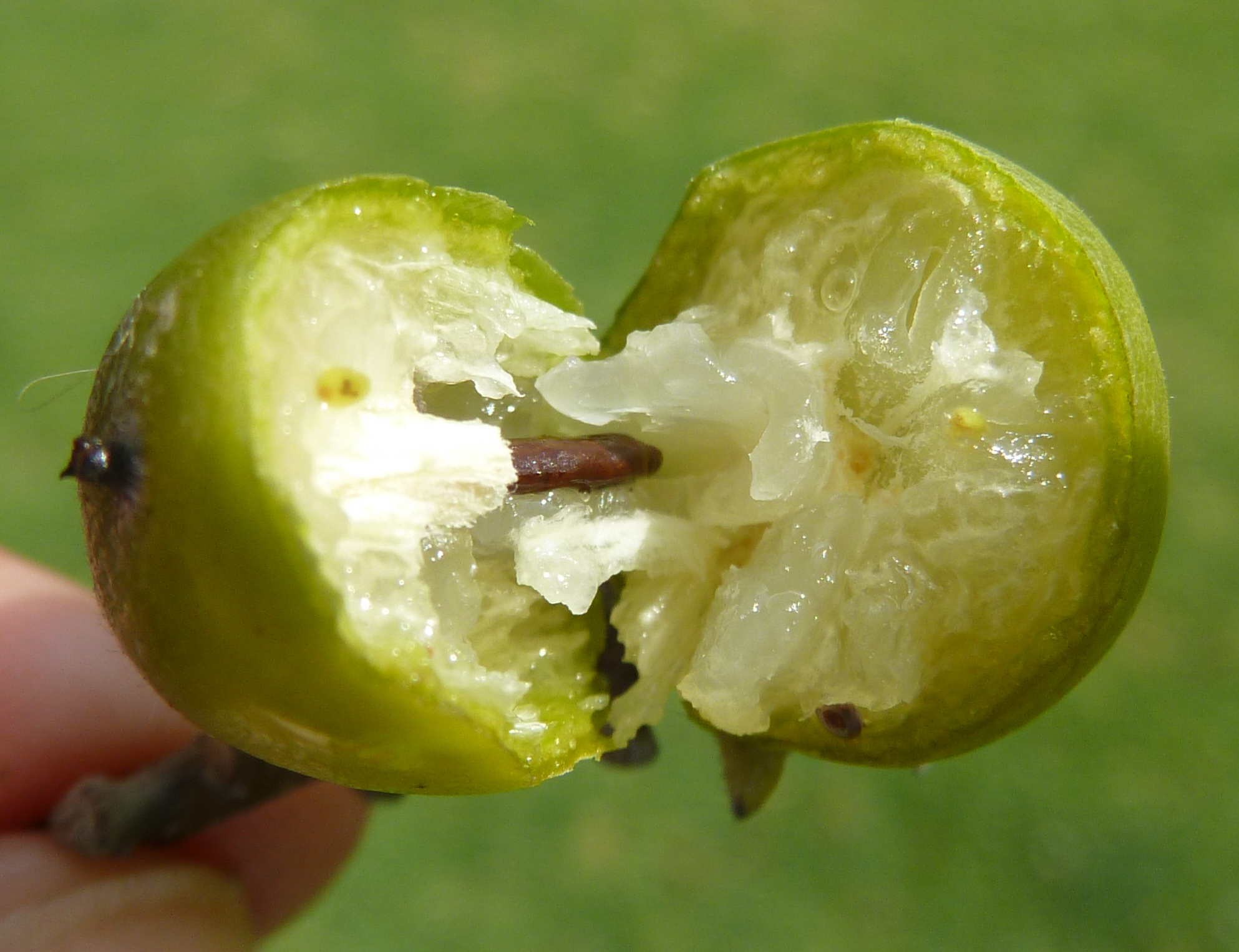 Broken fruit of a Jackal berry in Jan Celliers Park, Pretoria